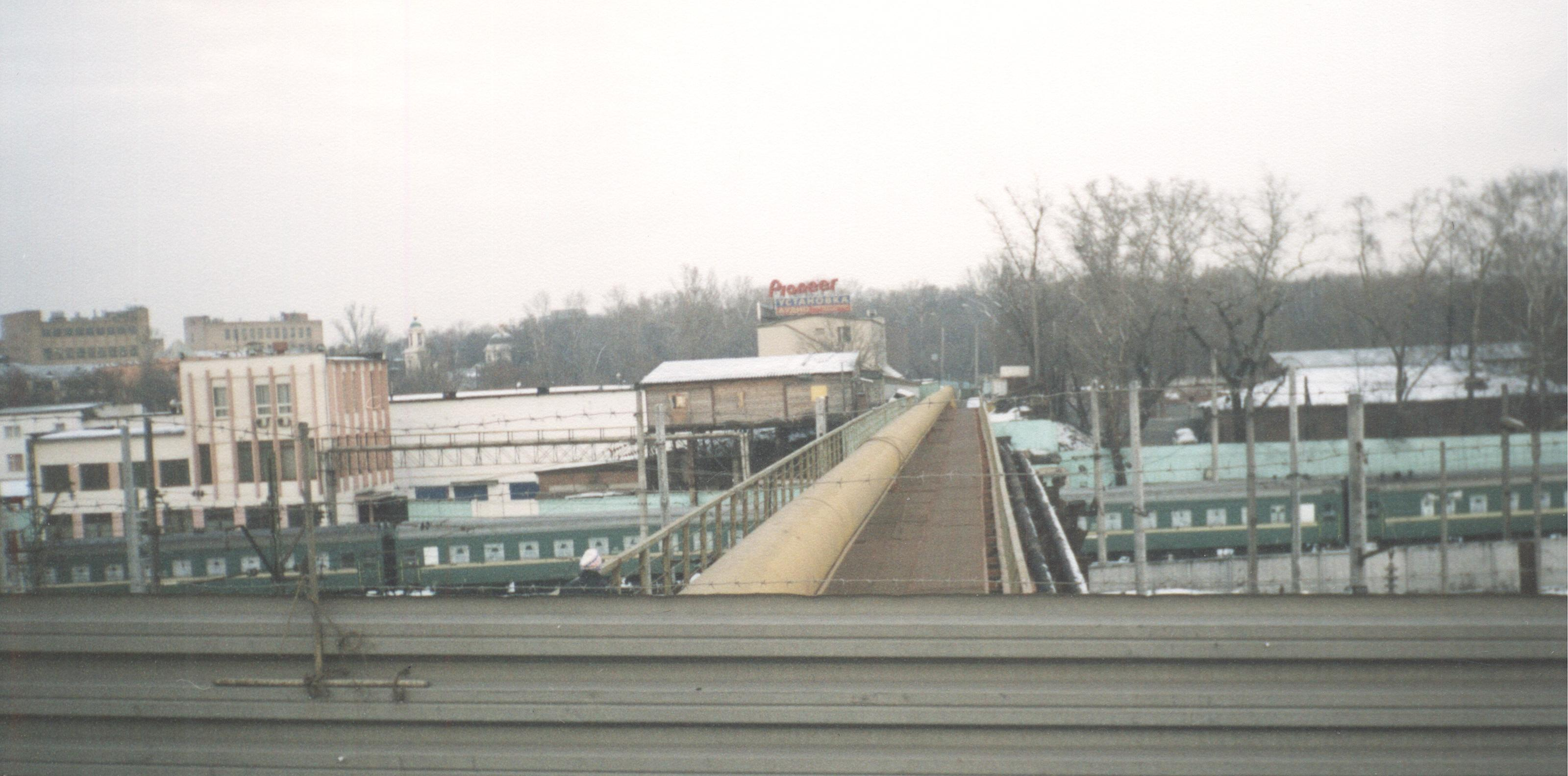 Stary Krestovski Puteprovod (Old Krestovsky Overpass, or Small Krestovsky Overpass) in Moscow